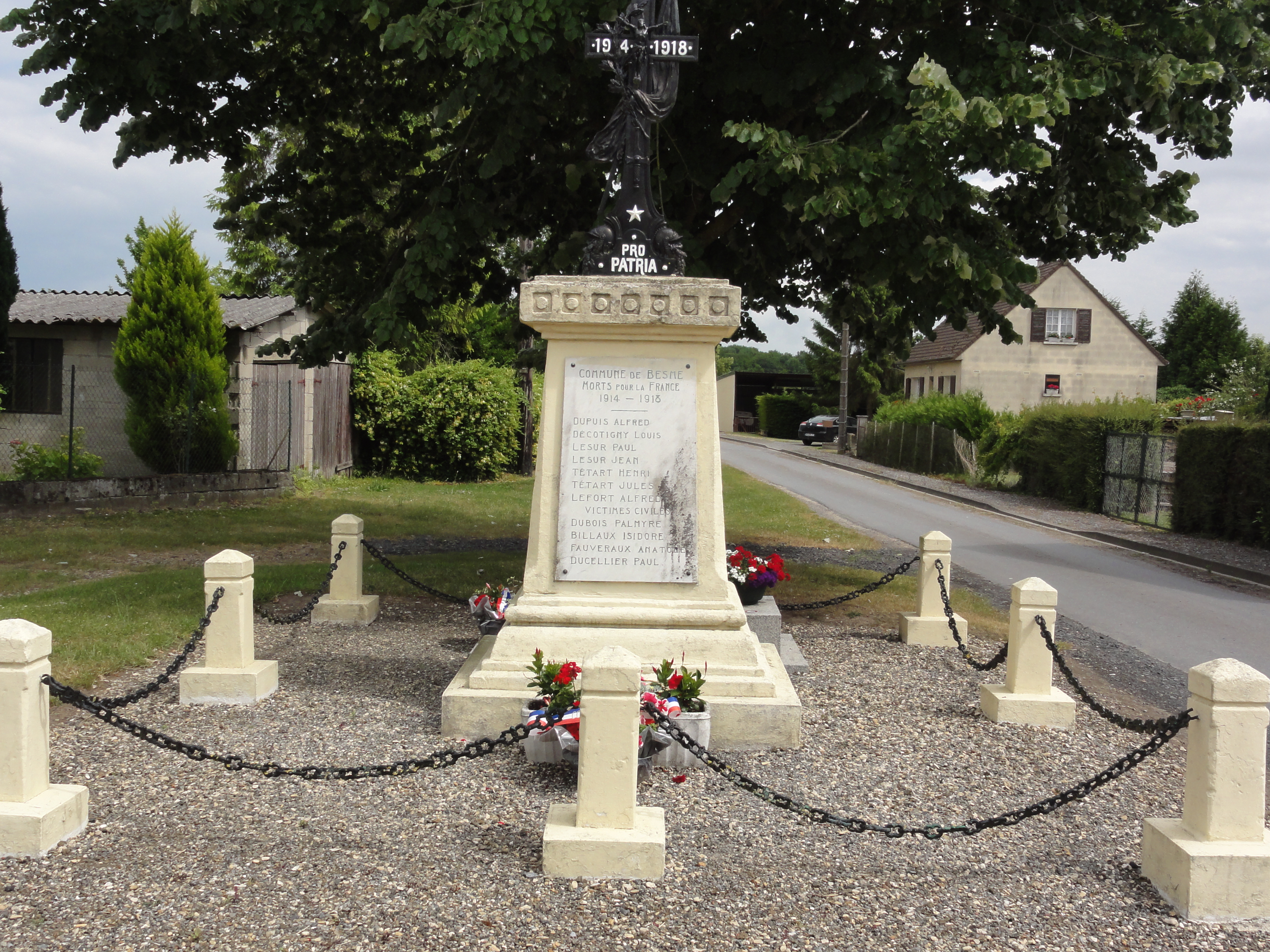 Besmé (Aisne) monument aux morts